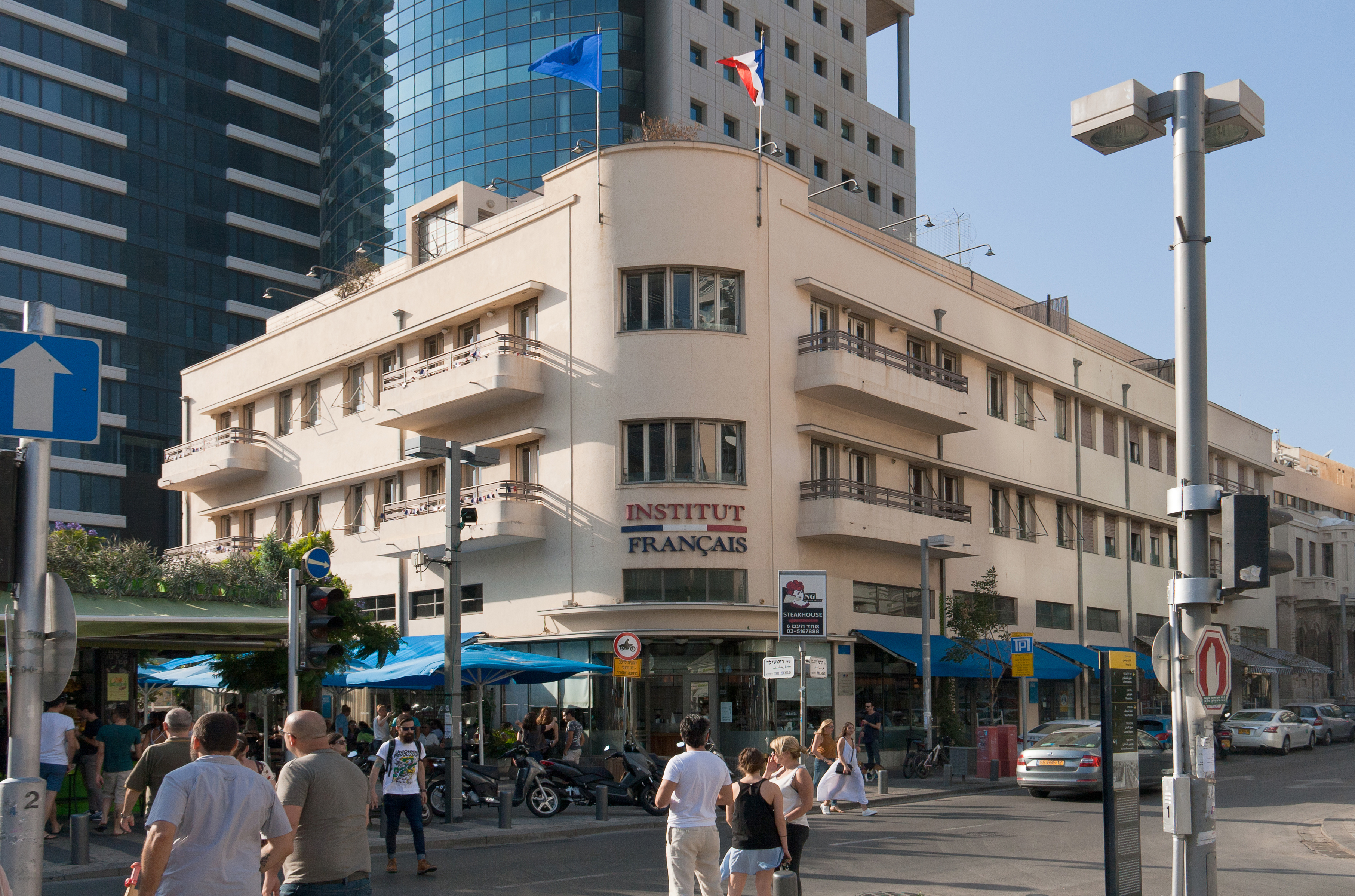 Institut Français in Tel Aviv